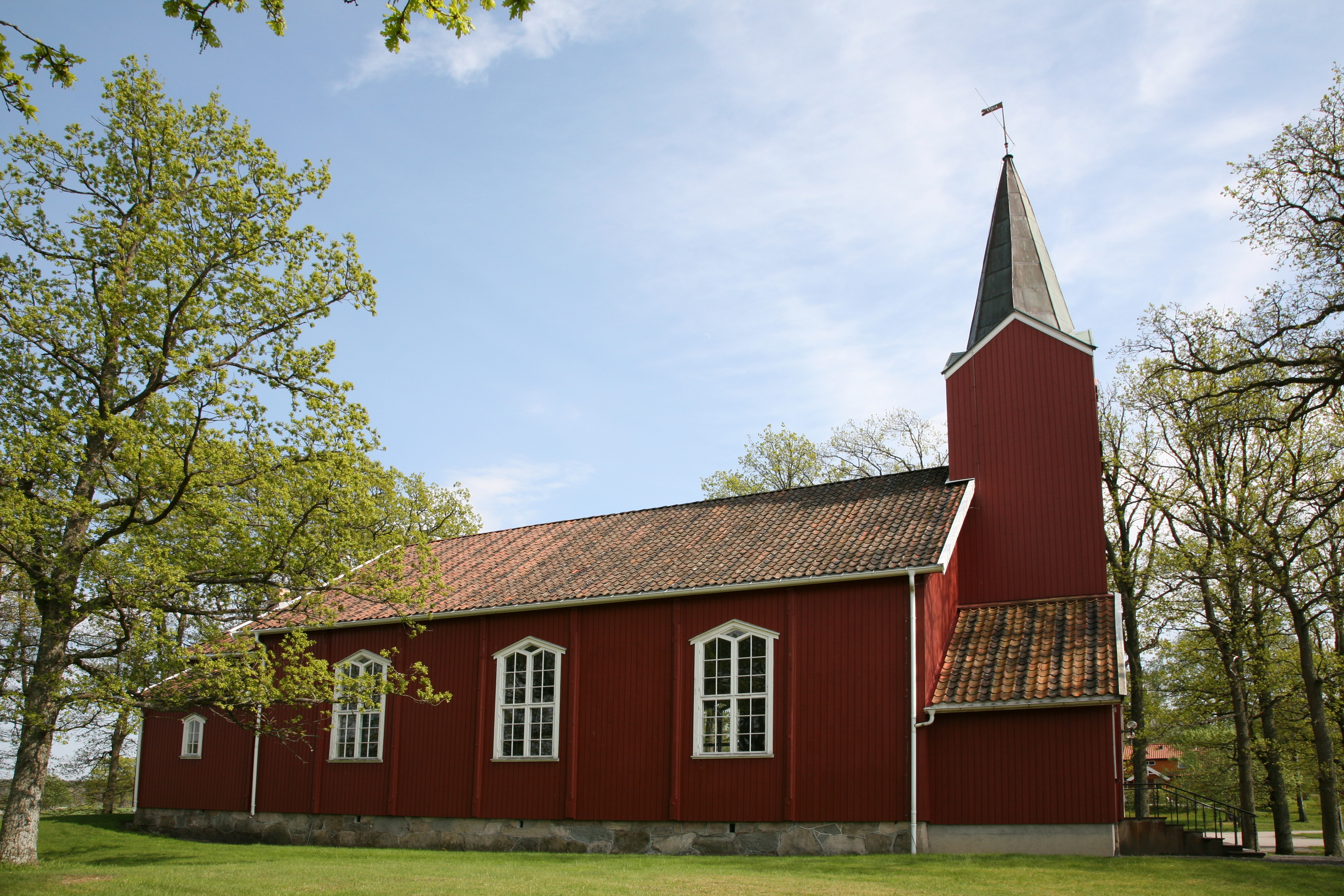 Tomb kapell is a church in Råde, Østfold